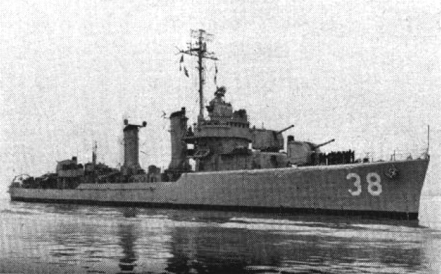 The U.S. Navy destroyer-minesweeper USS Thompson (DMS-38), circa inthe early 1950s.